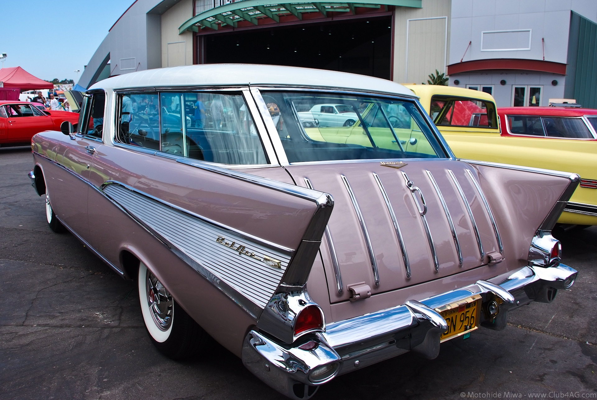 OC Hot Rod Cruise 2011-9-4th-19